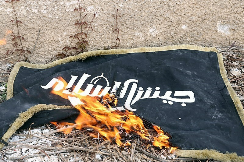 On Sunday, February 25, 2018, the Syrian Arab Army launched a massive campaign to liberate the eastern plutonium on the outskirts of Damascus, and eventually on April 25th, April 25, April 14, 2018, a proclamation of freedom and full cleansing of insurgents was announced.